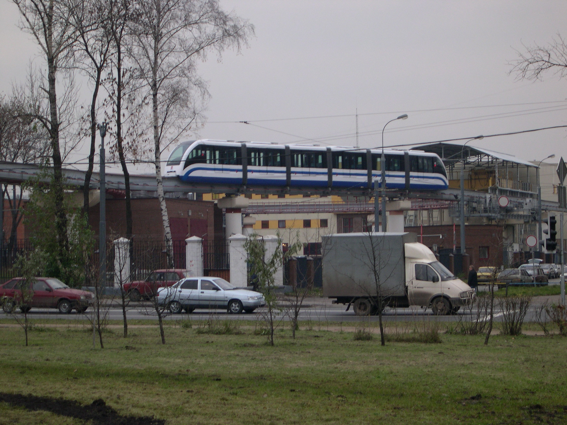 Moscow monorail